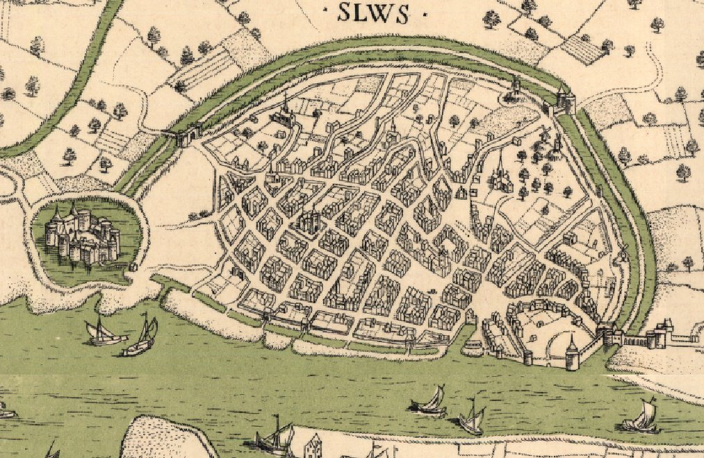 Detail of Bruges map of Marcus Gerards, showing the city Sluis (Slws).